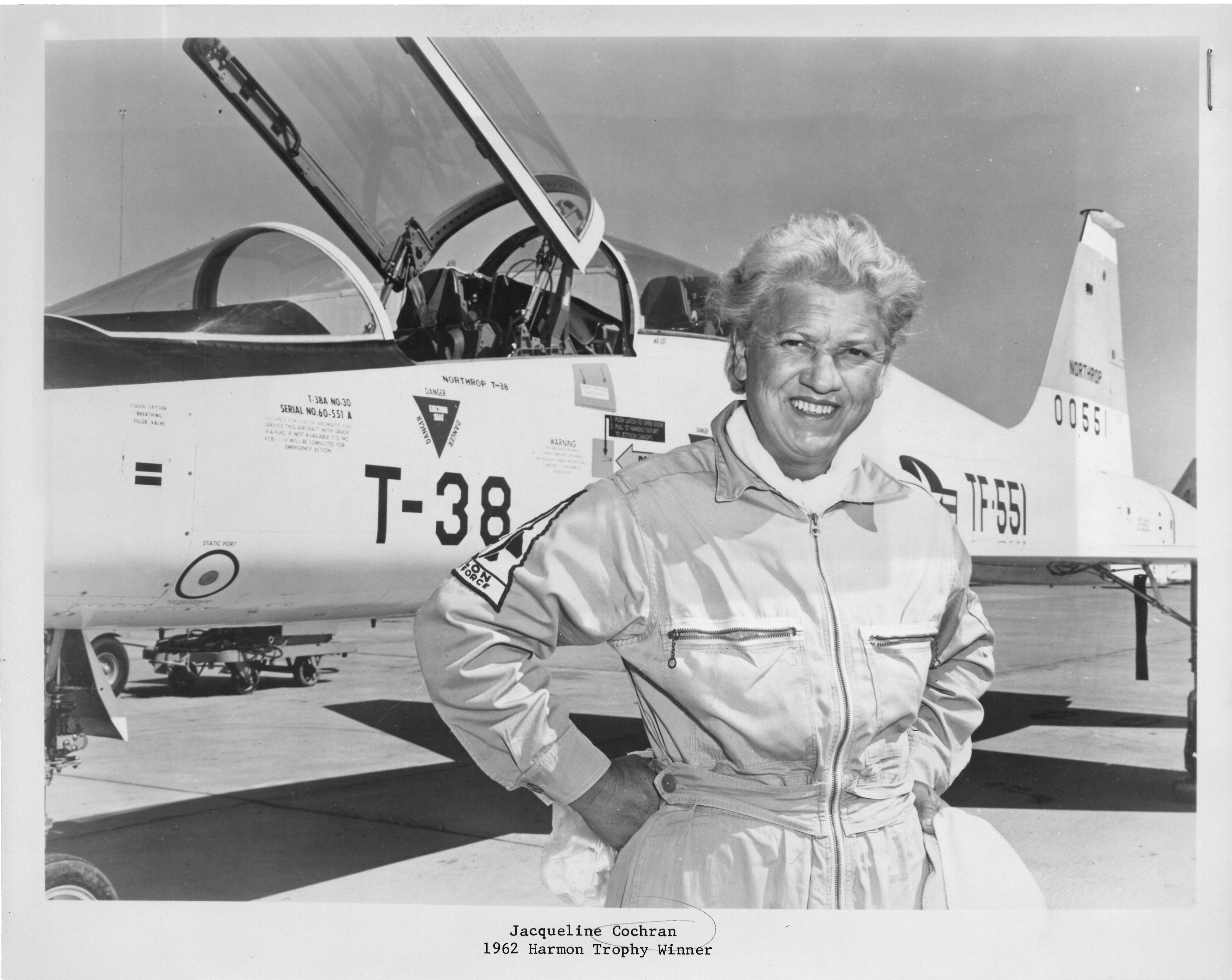 Description: During her aviation career, from the 1930s through the 1960s, Jacqueline Cochran (d. 1980) set more speed and altitude records than any contemporary pilot, male or female, and was the first woman to break the sound barrier. During World War II, she was instrumental in formation of the Women's Air Force Service Pilots (WASPs). This photograph was taken ca. 1962 when she received the Harmon Trophy for establishing eight World Class records in jet planes. Creator/Photographer: Unidentified photographer Medium: Black and white photographic print Persistent URL: Smithsonian Institution Archives, ID=5771 Repository: Smithsonian Institution Archives Collection: Science Service Records, 1902-1965 (Record Unit 7091) - Science Service, now the Society for Science & the Public, was a news organization founded in 1921 to promote the dissemination of scientific and technical information. Although initially intended as a news service, Science Service produced an extensive array of news features, radio programs, motion pictures, phonograph records, and demonstration kits and it also engaged in various educational, translation, and research activities. Accession number: SIA2008-1015